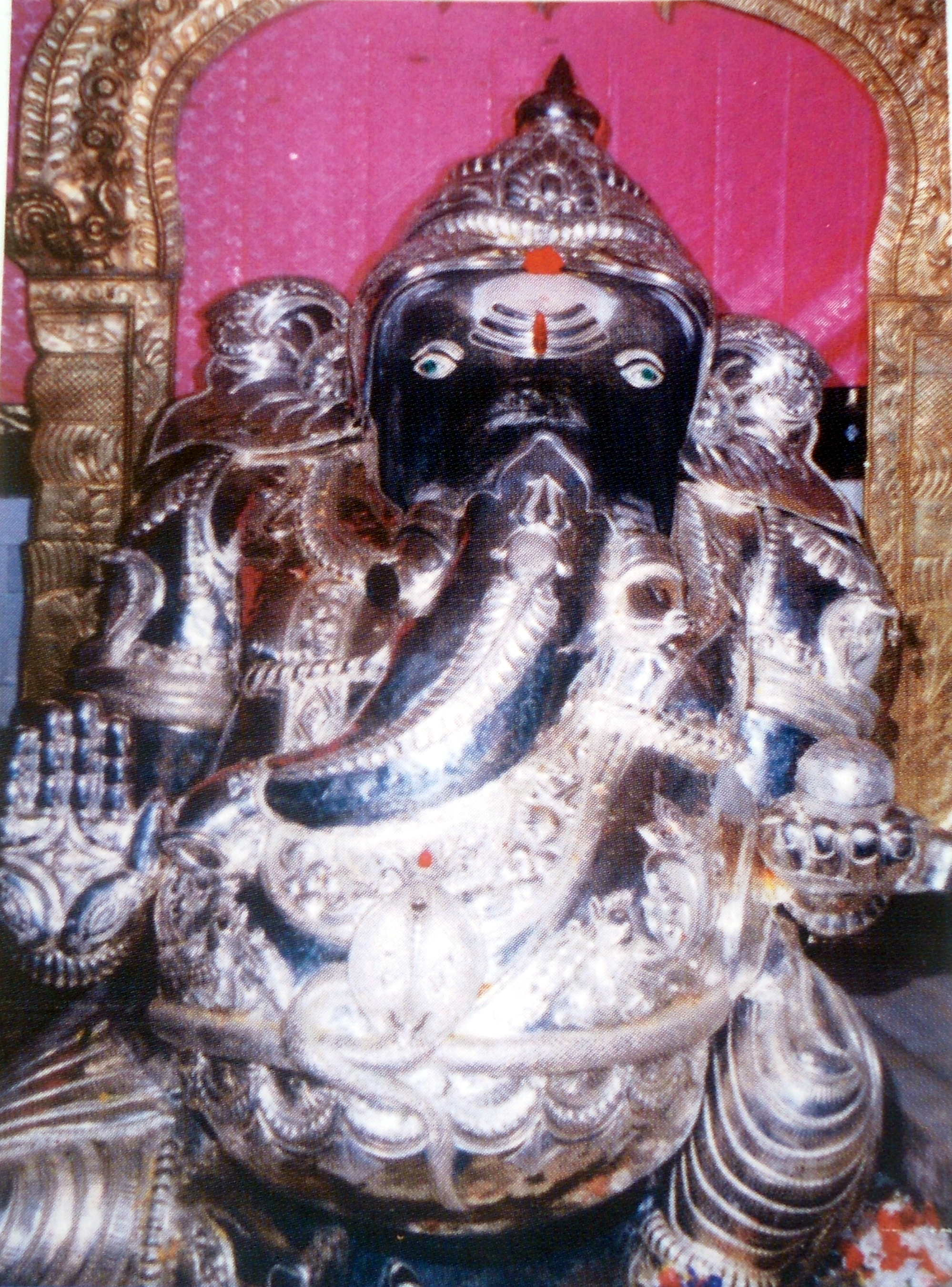 Biccavolu Maha Ganapathi, Biccavolu, East Godavari